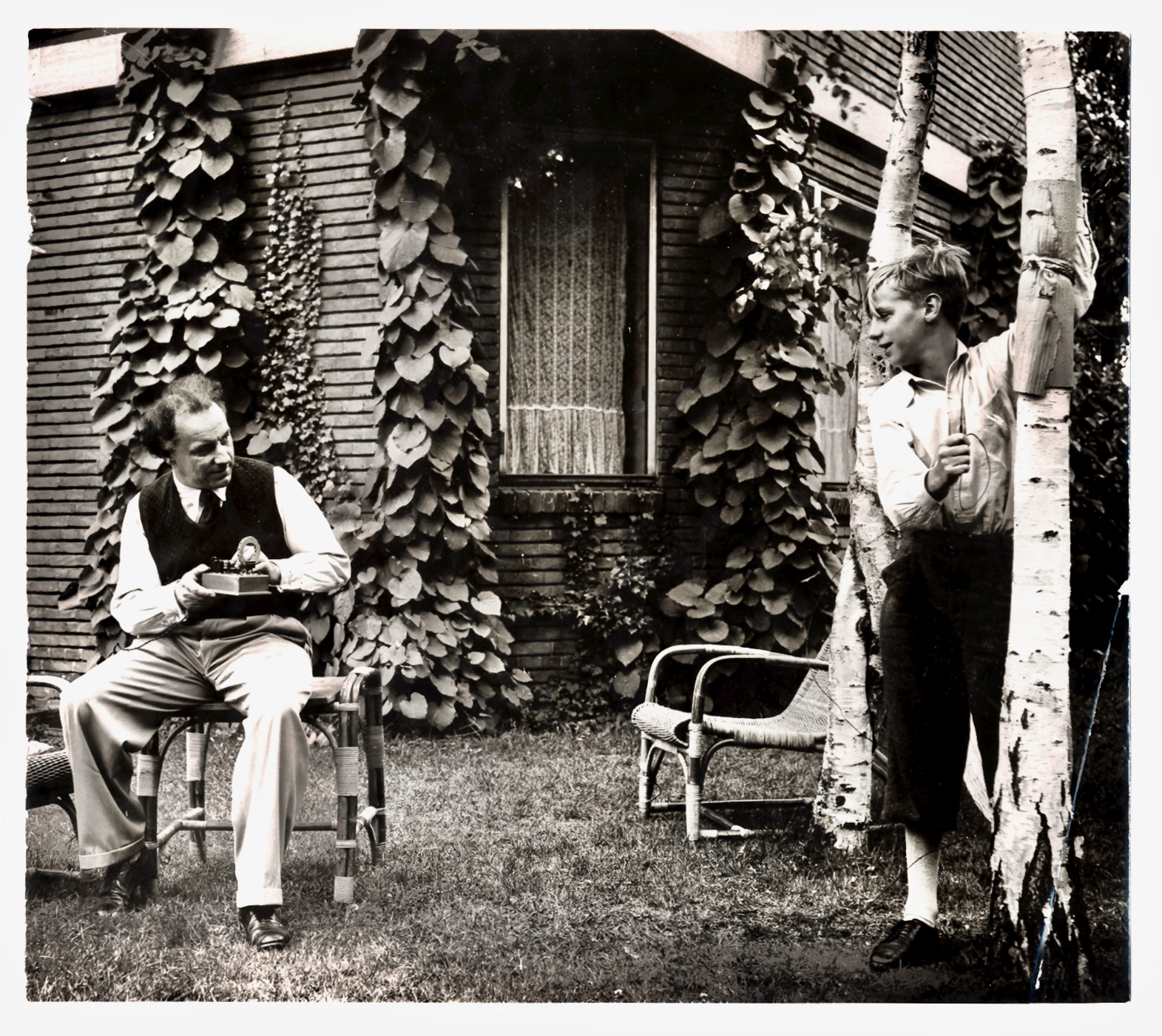 German film director Arnold Heinrich Fanck (1889–1974) with his first son Arnold Ernst Fanck (1919–1994) in the garden of the villa Am Sandwerder 39 in Berlin-Nikolassee, Germany. Arnold sen. holds a detector receiver / detector radio in his hands, Arnold jun. tries to hold the wire antenna up against a birch tree for better reception. Arnold junior attended the private boarding-school Freie Schulgemeinde in Wickersdorf near Saalfeld in Thuringia Forest from 1930 to 1938, where he graduated (Abitur).